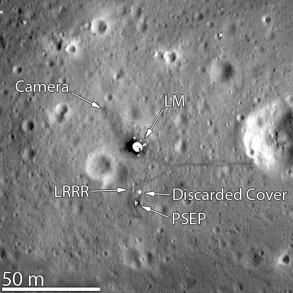 Hi-res view of the Apollo 11 landing site from the Lunar Reconnaissance Orbiter. LROC M175124932R. Aside from the objects pointed out traces from moonwalk are seen.